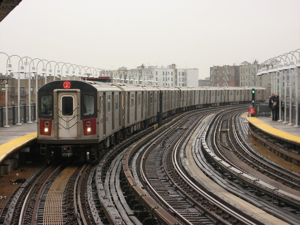 A 2 train entering the West Farms Square/East Tremont Avenue subway station in the Bronx.